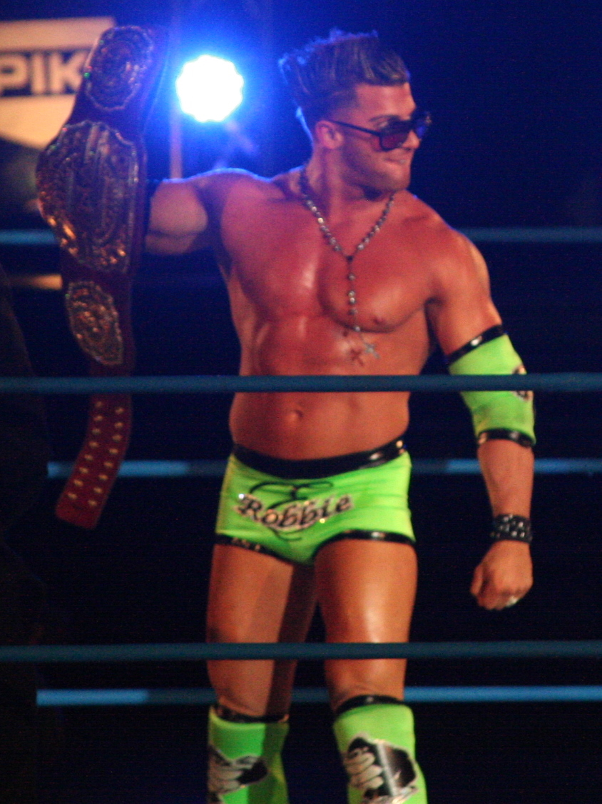 Robbie E. as the TNA Television Champion at a TNA house show in Florence, South Carolina on February 3, 2012. Cropped from original.